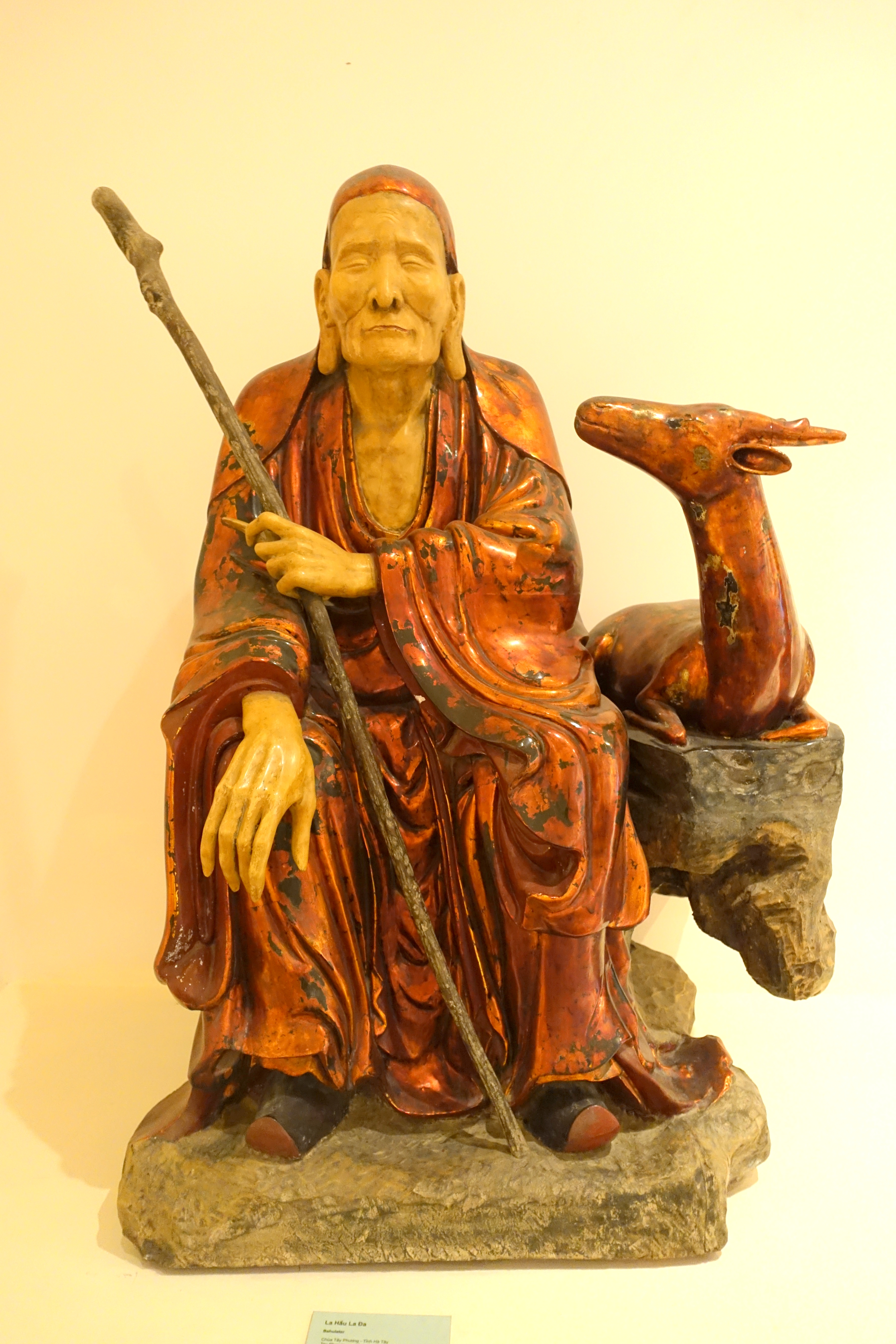 Exhibit in the Vietnam National Museum of Fine Arts - Hanoi, Vietnam. This artwork is old enough so that it is in the public domain.